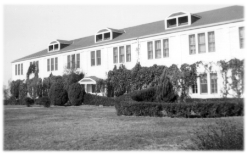 This was the largest building within the Davidian grounds in Waco, Texas. Circa approx. early 1950's.